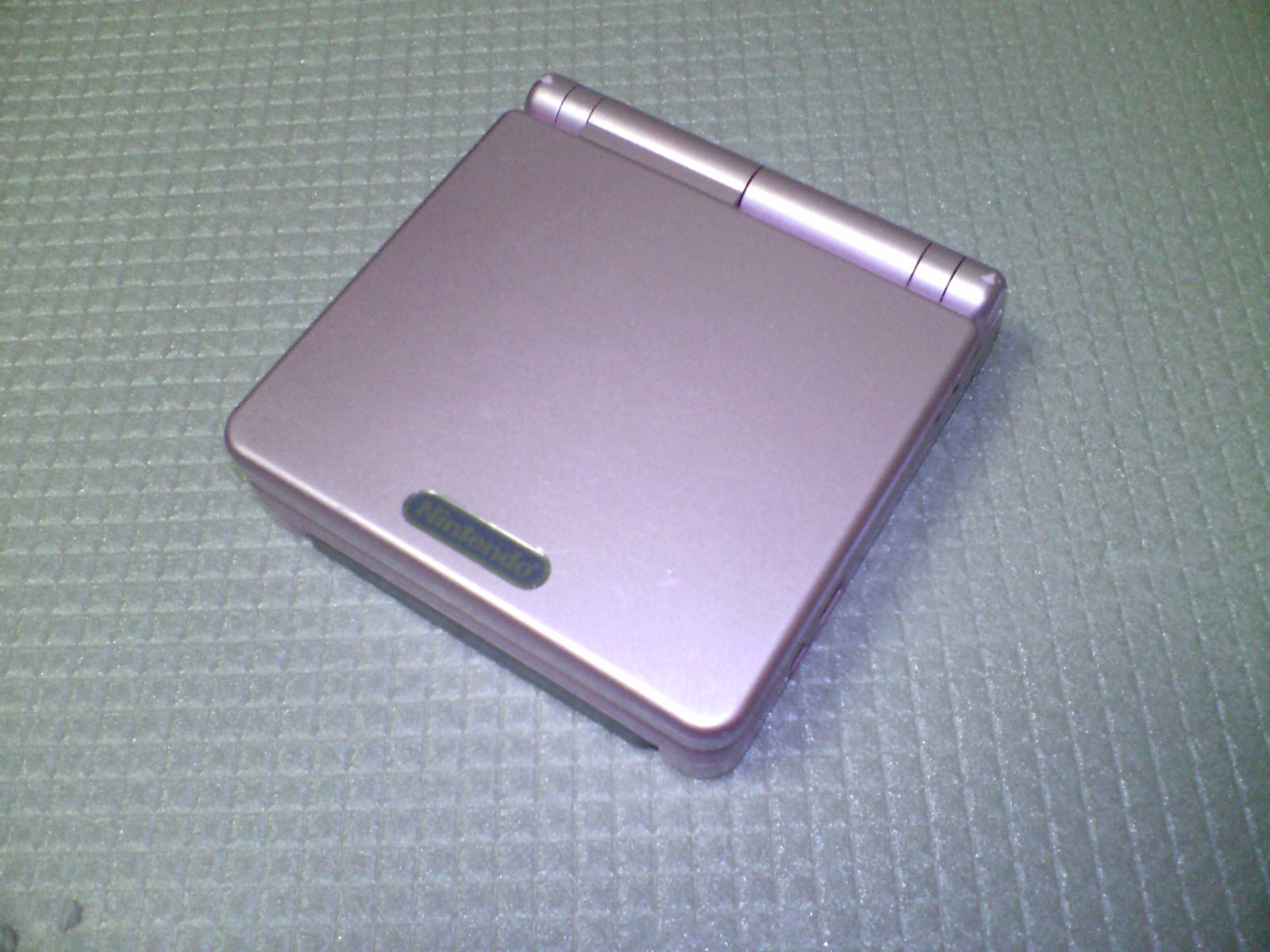 Game Boy Advance SP(Close)